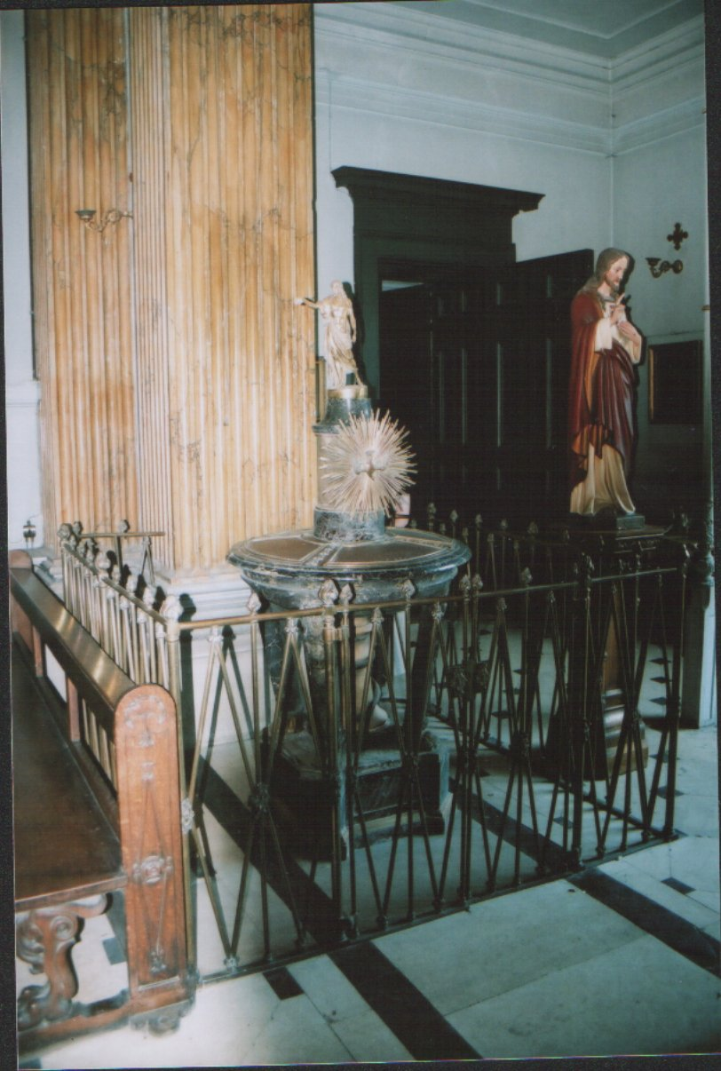 Baptistry of St Mary the Virgin and St Everilda's Roman Catholic Church, Everingham, East Riding of Yorkshire, England.I took the photograph